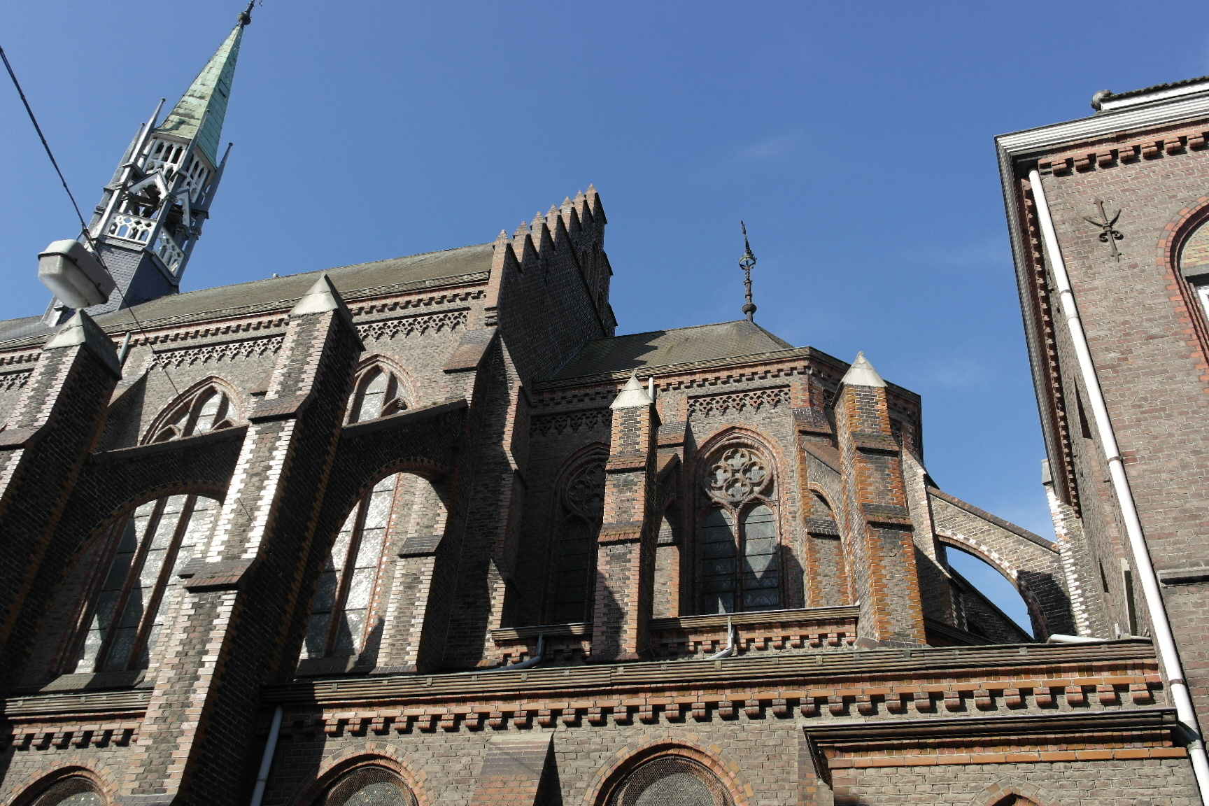 Maastricht, the Netherlands. View from Capucijnenstraat of the former Ursuline Church, now part of Museum N More, a museum of religious artifacts.